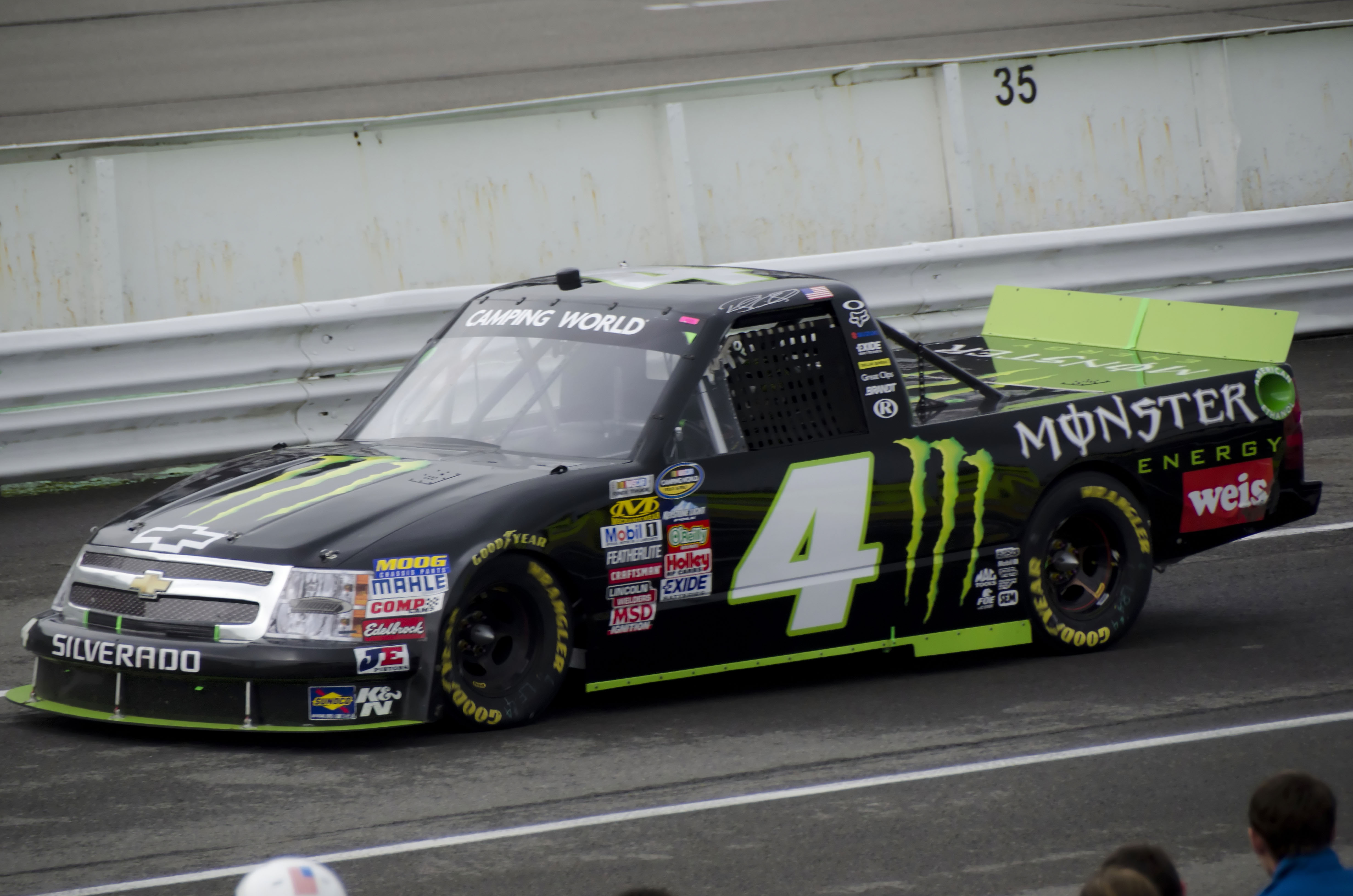 Ricky Carmichael's No. 4 Monster Energy Chevrolet at Pocono Raceway in 2011